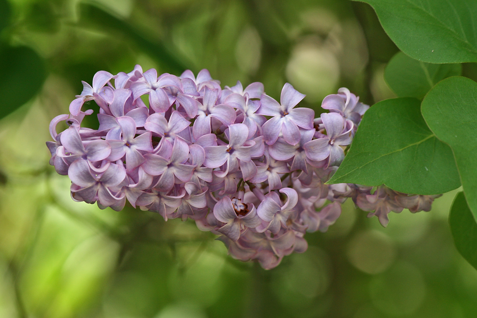 A lilac bush (Syringa vulgaris) showing a panicle with multiple flowers in bloom and leaves. Victoria, Australia.